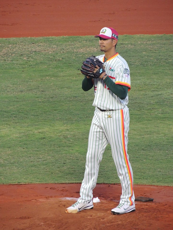 Ching-Lung Lo at a baseball game of Tainan of Taiwan in October 27, 2013.